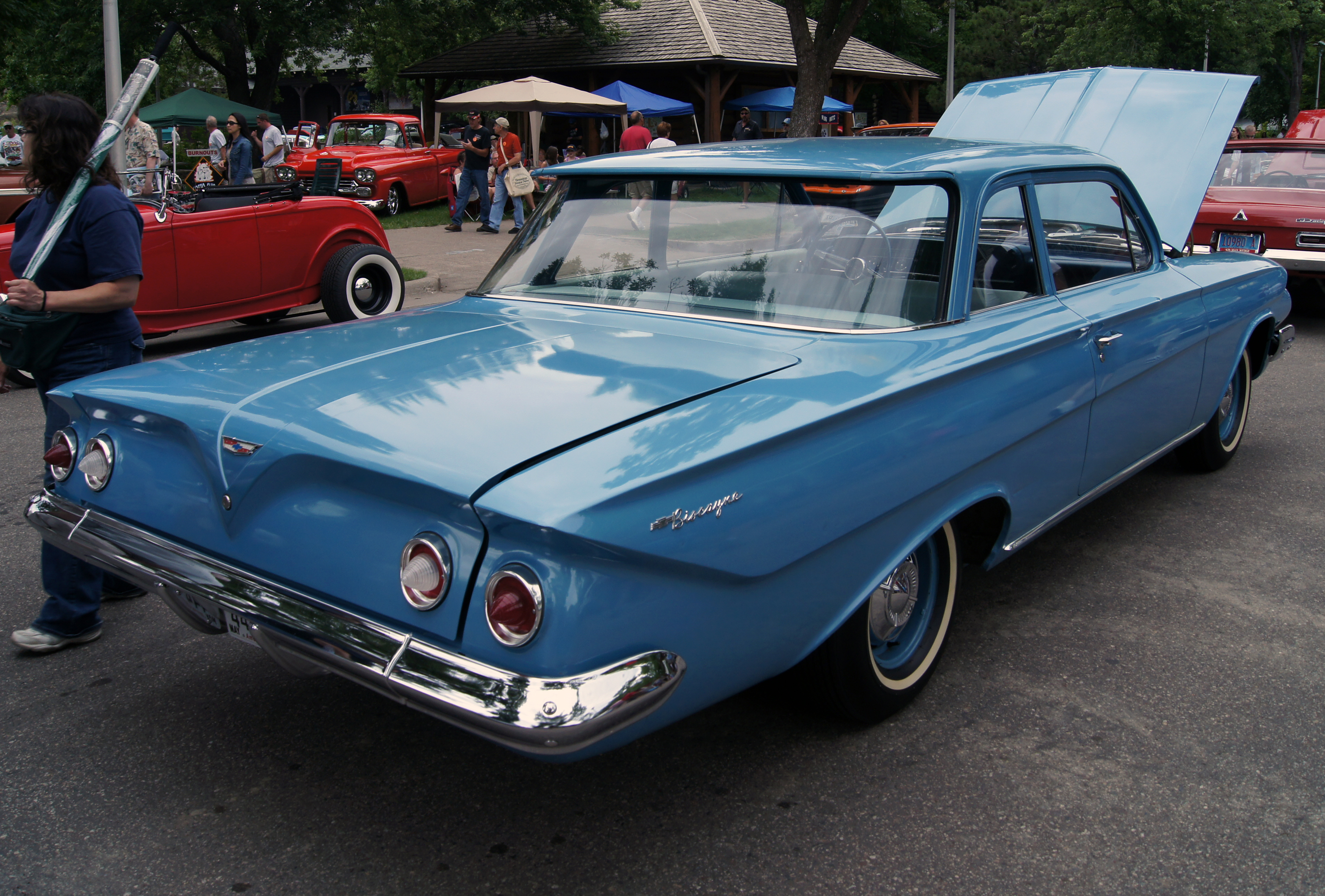 1961 Chevrolet Biscayne two-door sedan at the Minnesota Street Rod Association's 39th Annual "Back to the Fifties" show, June 2012 at the Minnesota State Fairgrounds, St. Paul MN.